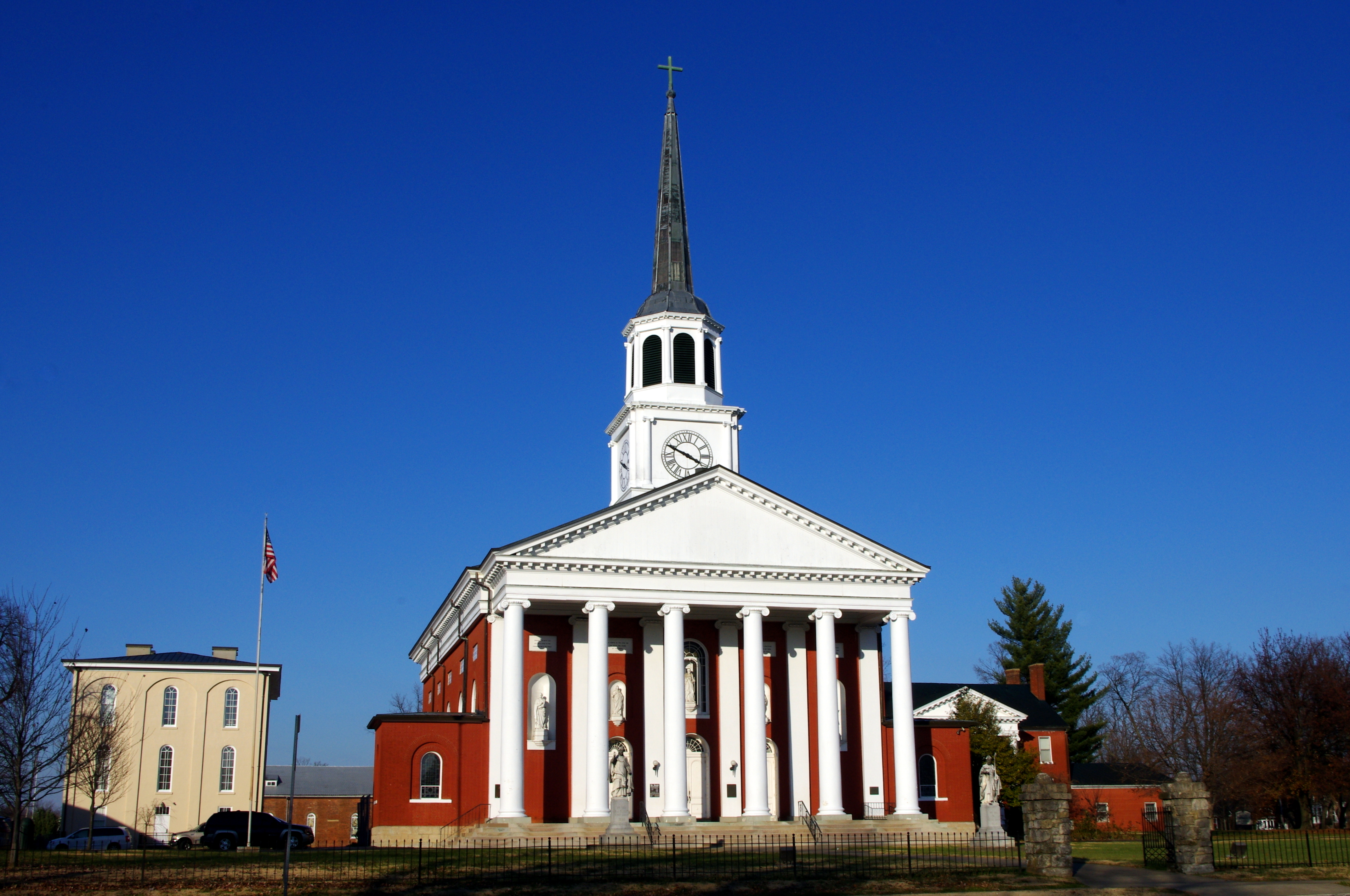 Basilica of Saint Joseph Proto-Cathedral (Bardstown, Kentucky), exterior, view from the corner opposite the basilica